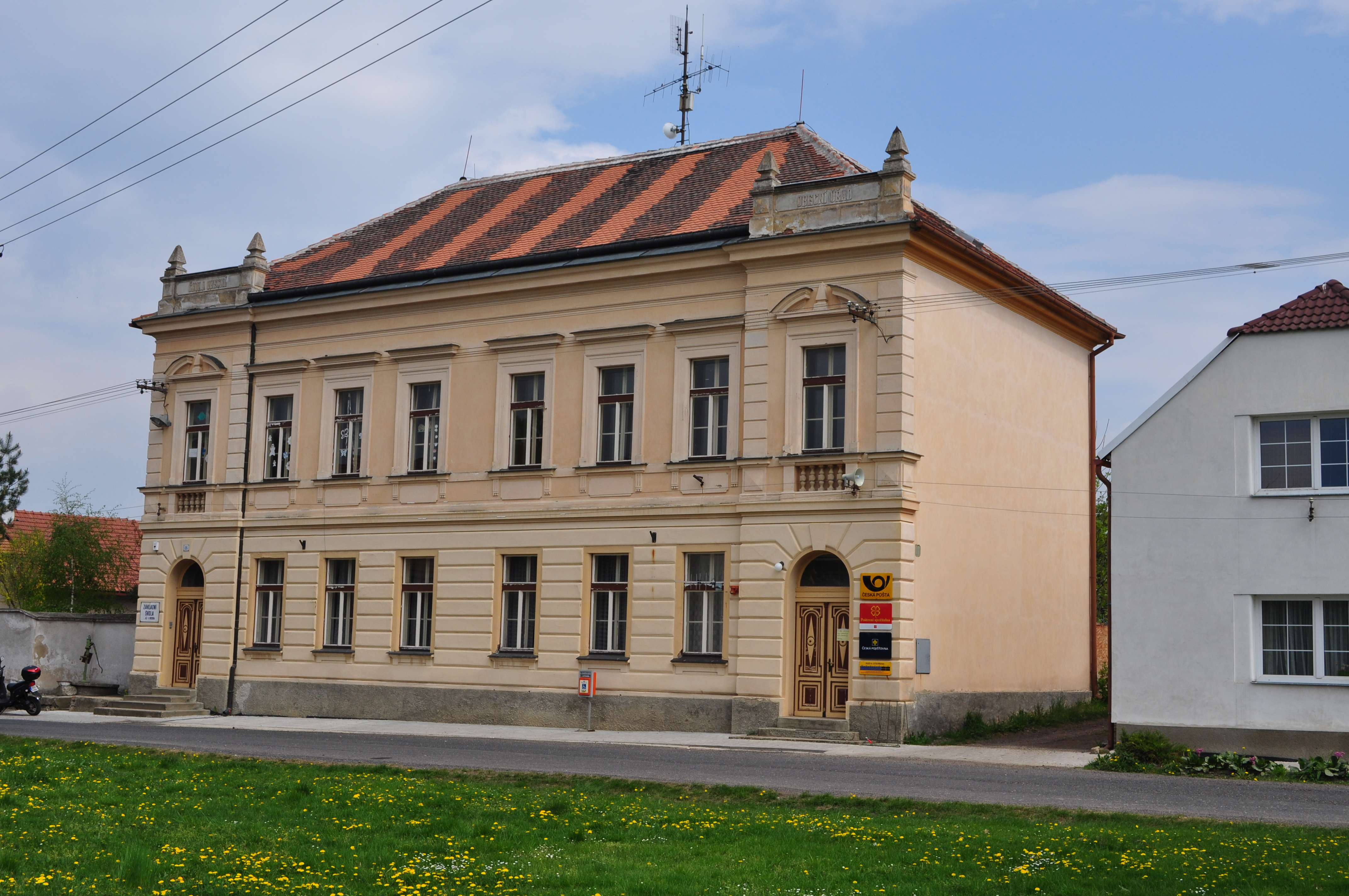 Pátek - School